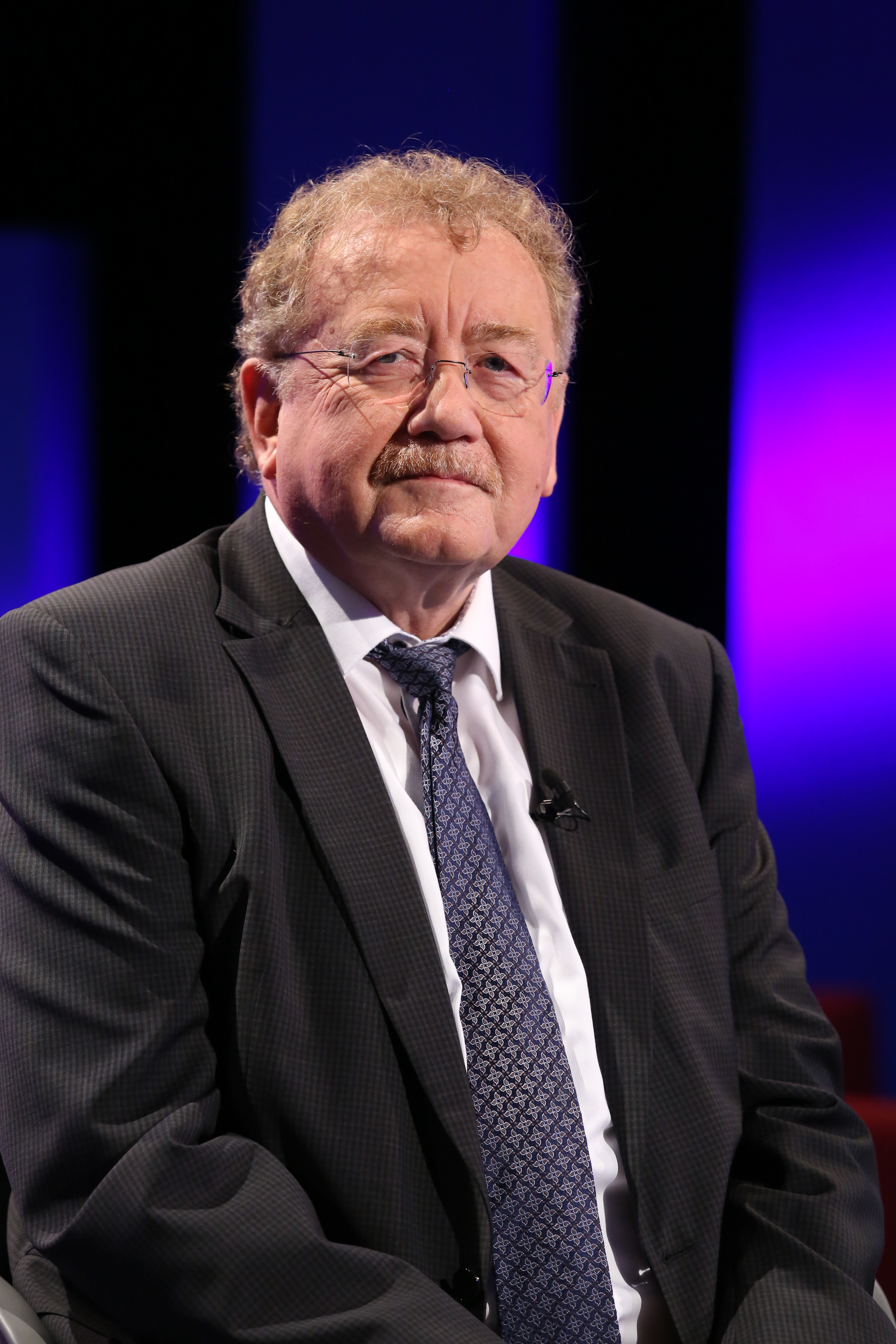 Dieter Engels at the 34th Bonn Economic Forum (Bonner Wirtschaftstalk), Kunst- und Ausstellungshalle der Bundesrepublik Deutschland (Federal Art and Exhibition Hall), Bonn